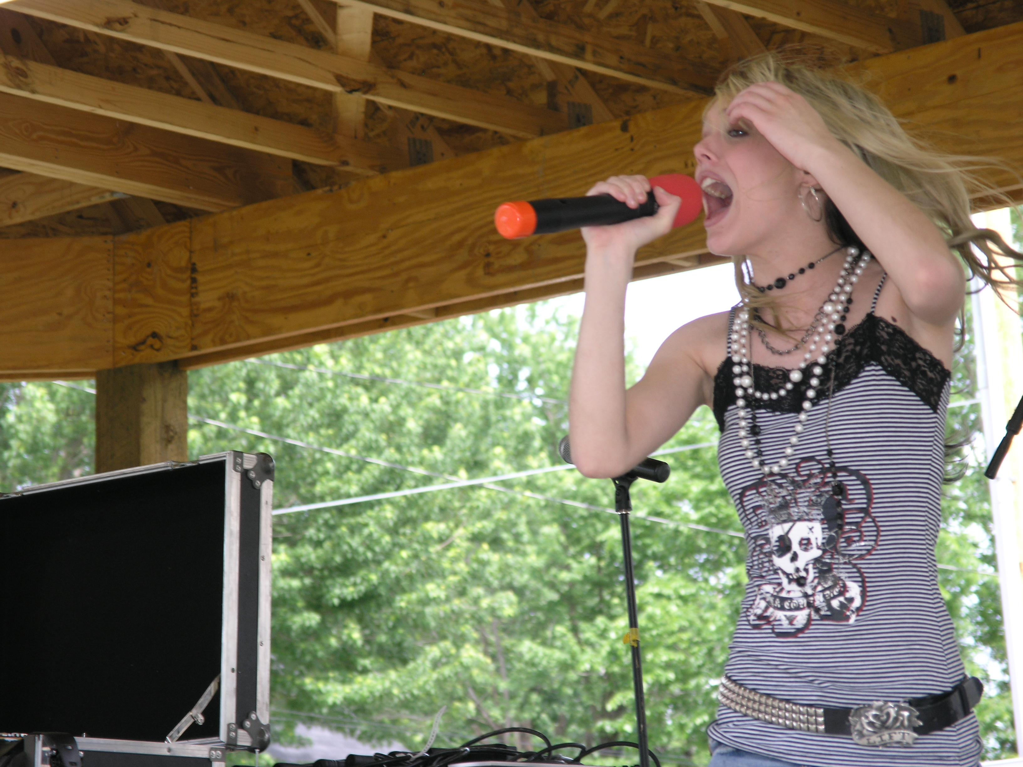 I took this picture myself, none, copyright tags: free license ?The preceding unsigned comment was added by Ellie909 (talk ? contribs) 19:07, 6 June 2006.